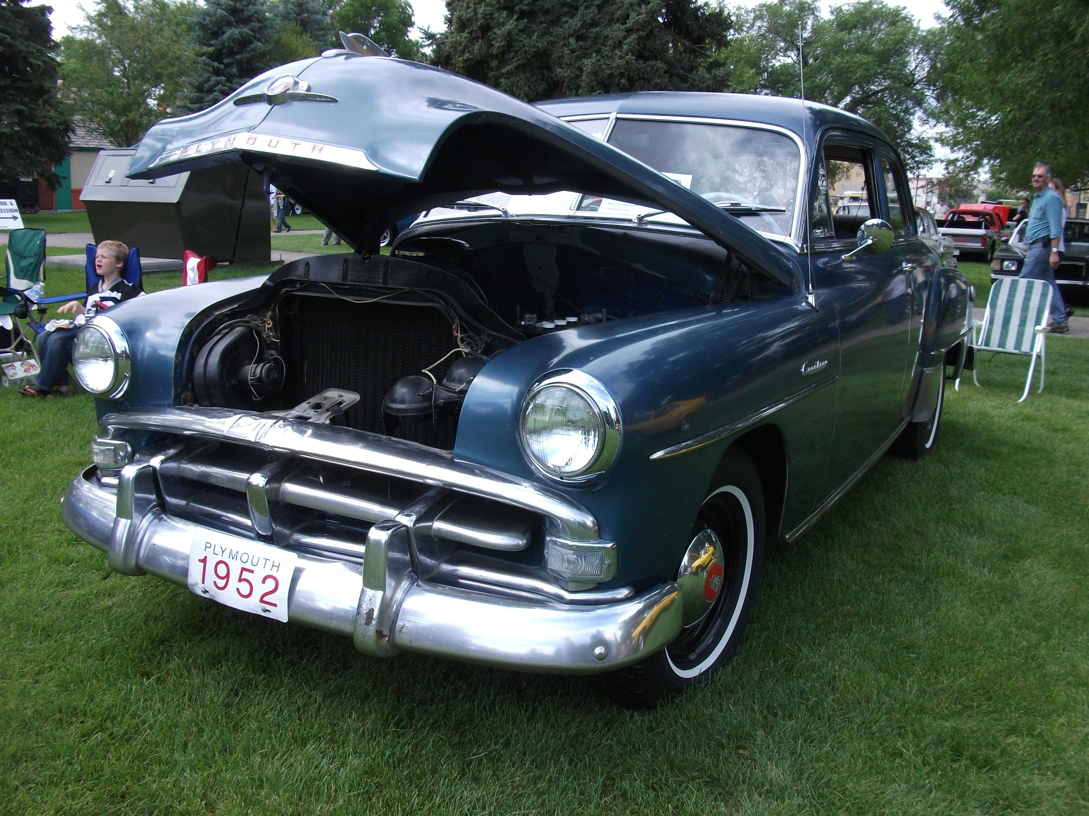 1952 Plymouth Cranbrook